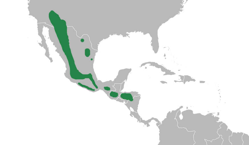 Distribution of Olive Warbler, Peucedramus taeniatus, (inspired from: Lowther, Peter E. and Jorge Nocedal. 1997. Olive Warbler (Peucedramus taeniatus), The Birds of North America Online (A. Poole, Ed.). Ithaca: Cornell Lab of Ornithology; Retrieved from the Birds of North America Online)